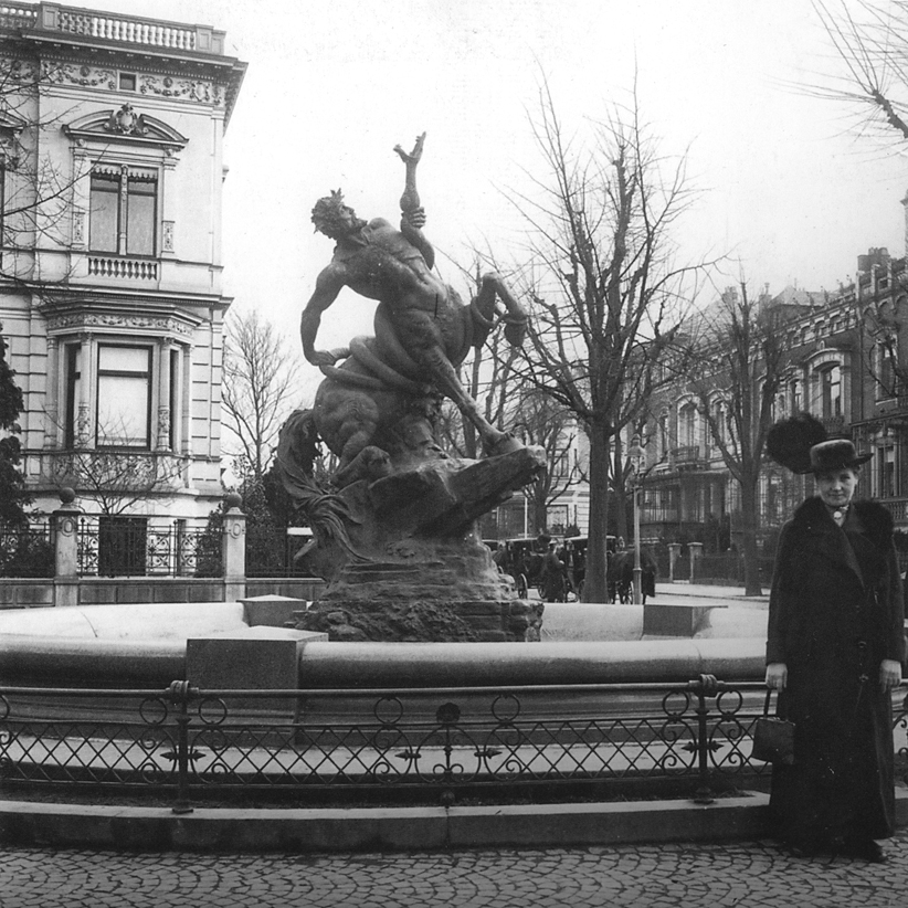 The Centaurenbrunnen (“Centaur fountain”) in Bremen, Germany, around 1900 at its original location on the junction of the streets Schwachhauser Heerstraße and Bismarckstraße. Donated by Eduard Gildemeister and designed by Carl August Sommer.